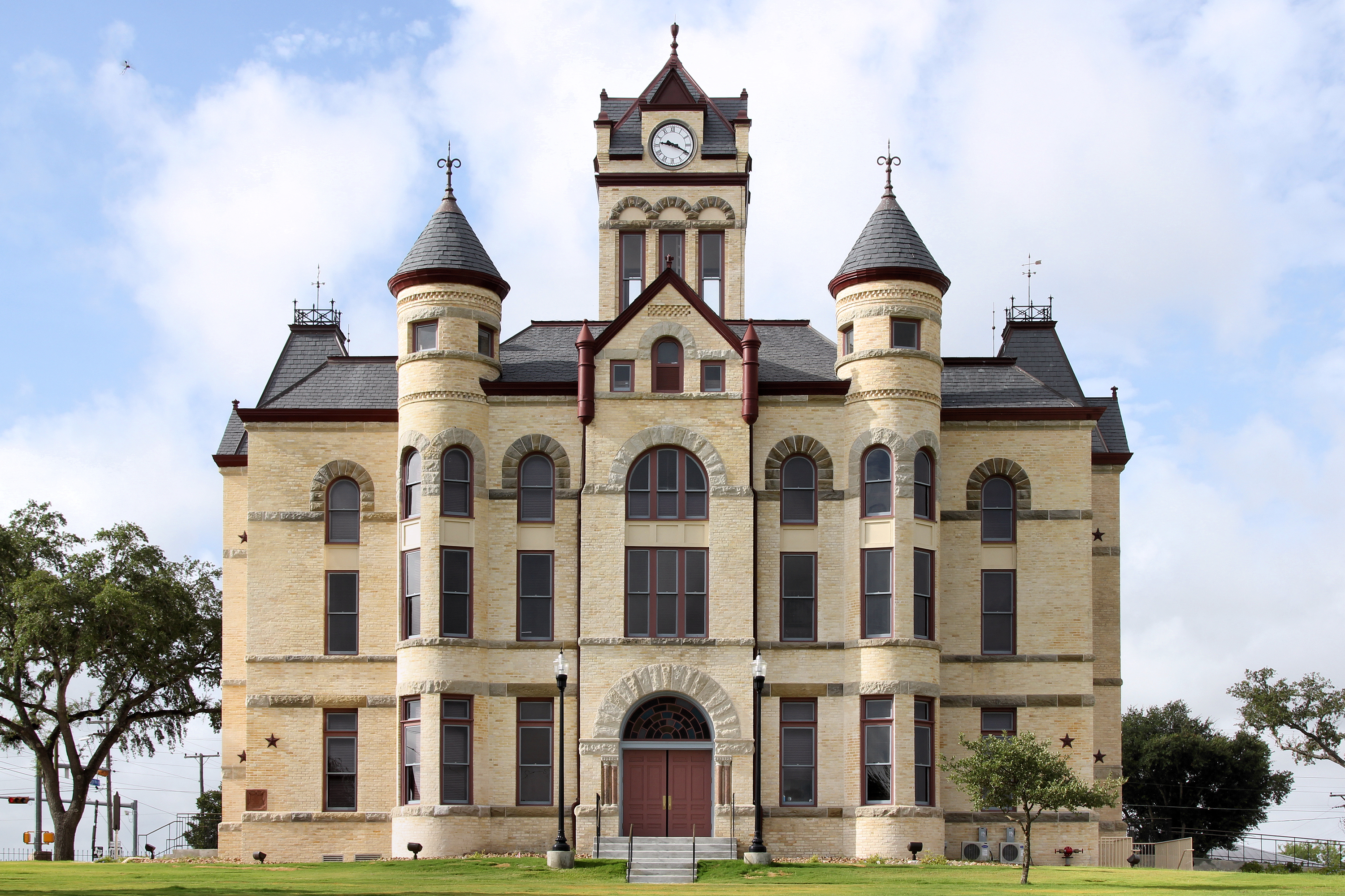 The north elevation of the Karnes County, Texas Courthouse in Karnes City, Texas, United States. The courthouse was recently restored to its original (1894) appearance